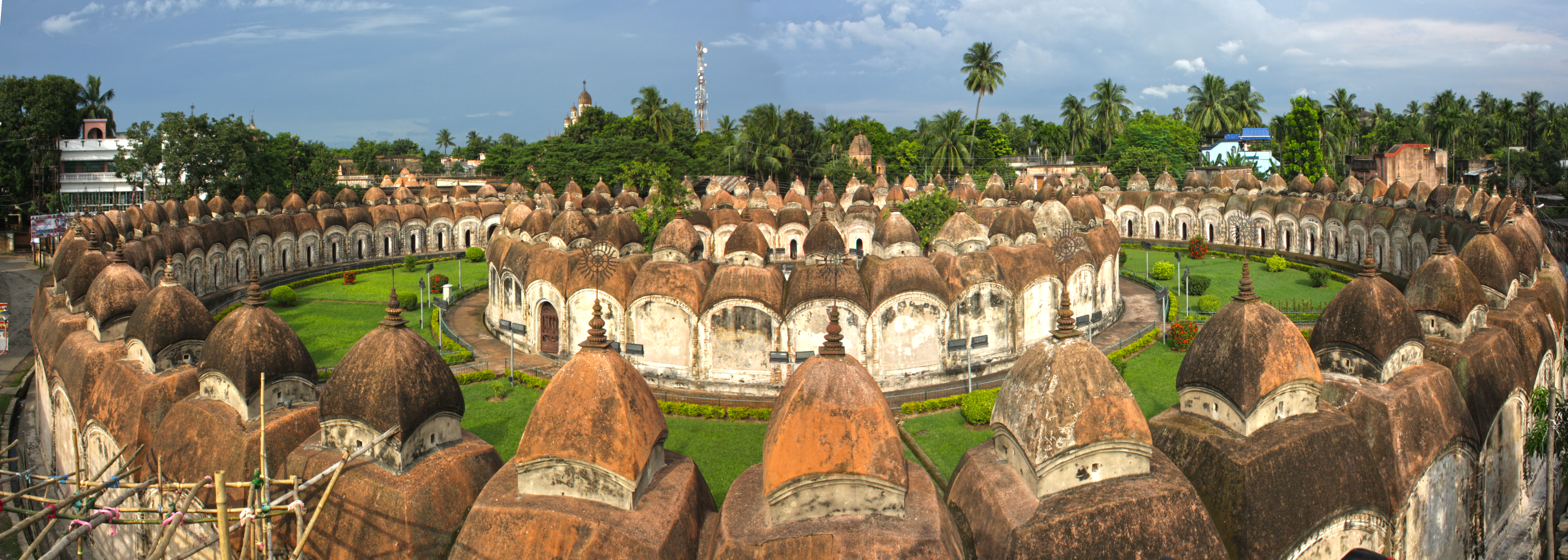 Nava-Kailasha Temple also known as '108 Shiv Temples of Kalna', it was erected in 1809 by Tejchandra Bahadur, Maharaja of Burdwan.This photo has been taken during Wikipedia Loves Monuments Photo Drive in Kalna, West Bengal.